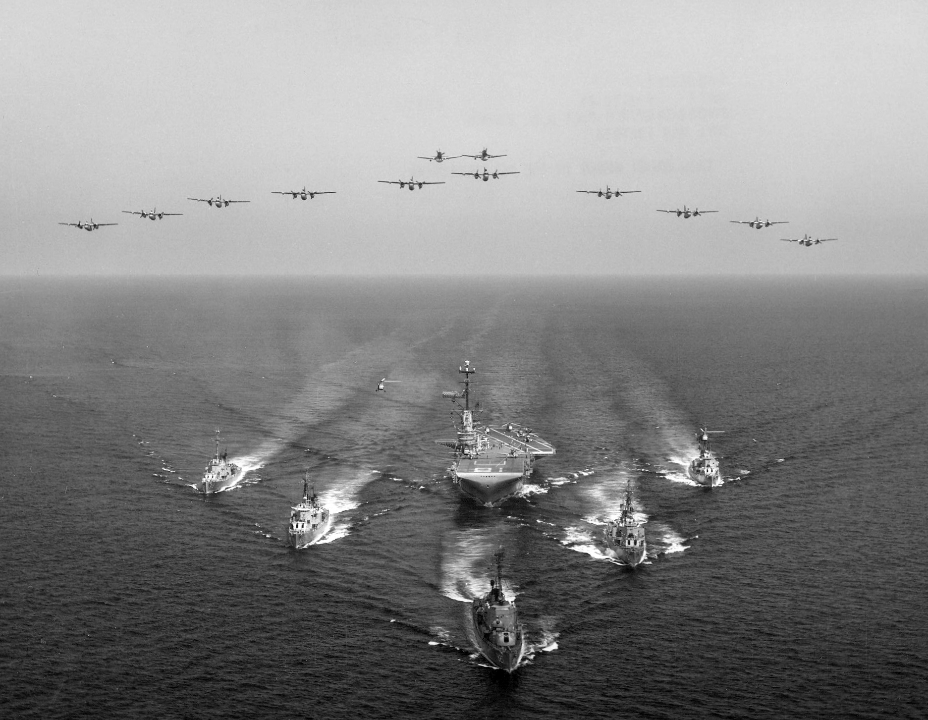 The U.S. Navy aircraft carrier USS Wasp (CVS-18) in formation with destroyers and aircraft of Anti-submarine Task Group Bravo, in the Mediterranean Sea, 19 August 1961. All escorts are Gearing-class DDEs. The planes overhead from Carrier Anti-Submarine Air Group 52 (CVSG-52) include ten Grumman S2F-1 Tracker and two Douglas AD-5W Skyraider. Two Sikorsky HSS-1 Seabat helicopters are flying just above the ships. The destroyer on the far left is USS New (DDE-818), then USS Rich (DDE-820), in front is USS Robert A. Owens (DDE-827). USS Johnston (DD-821) is probably next.